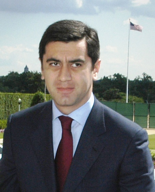 Secretary of Defense Donald H. Rumsfeld (right) escorts Georgian Minister of Defense Irakli Okruashvili (left) through an honor cordon and into the Pentagon on June 17, 2005. Rumsfeld and Okruashvili will meet to discuss defense issues of mutual interest.